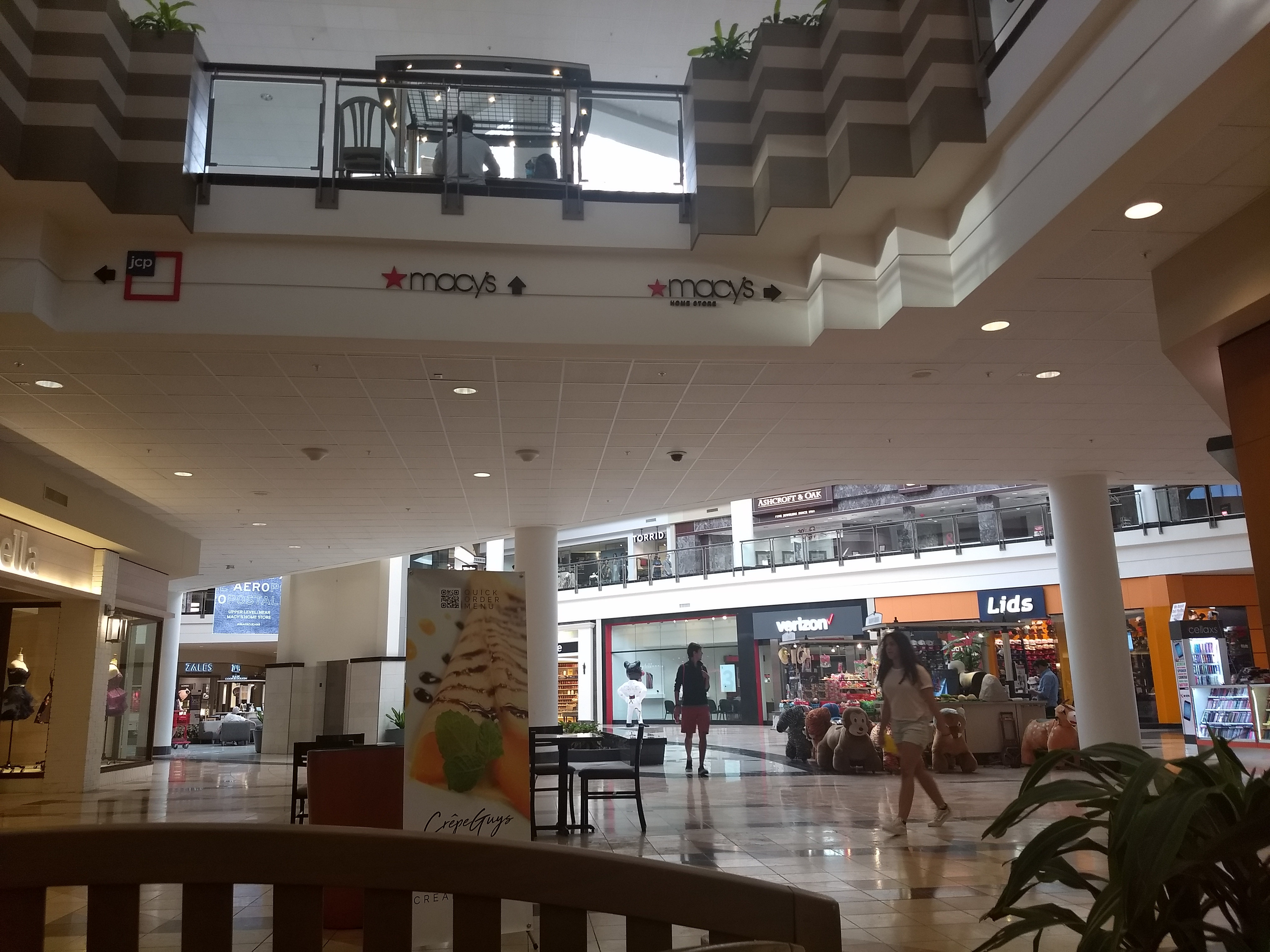 Looking towards the center court at Florence "Y'all" Mall